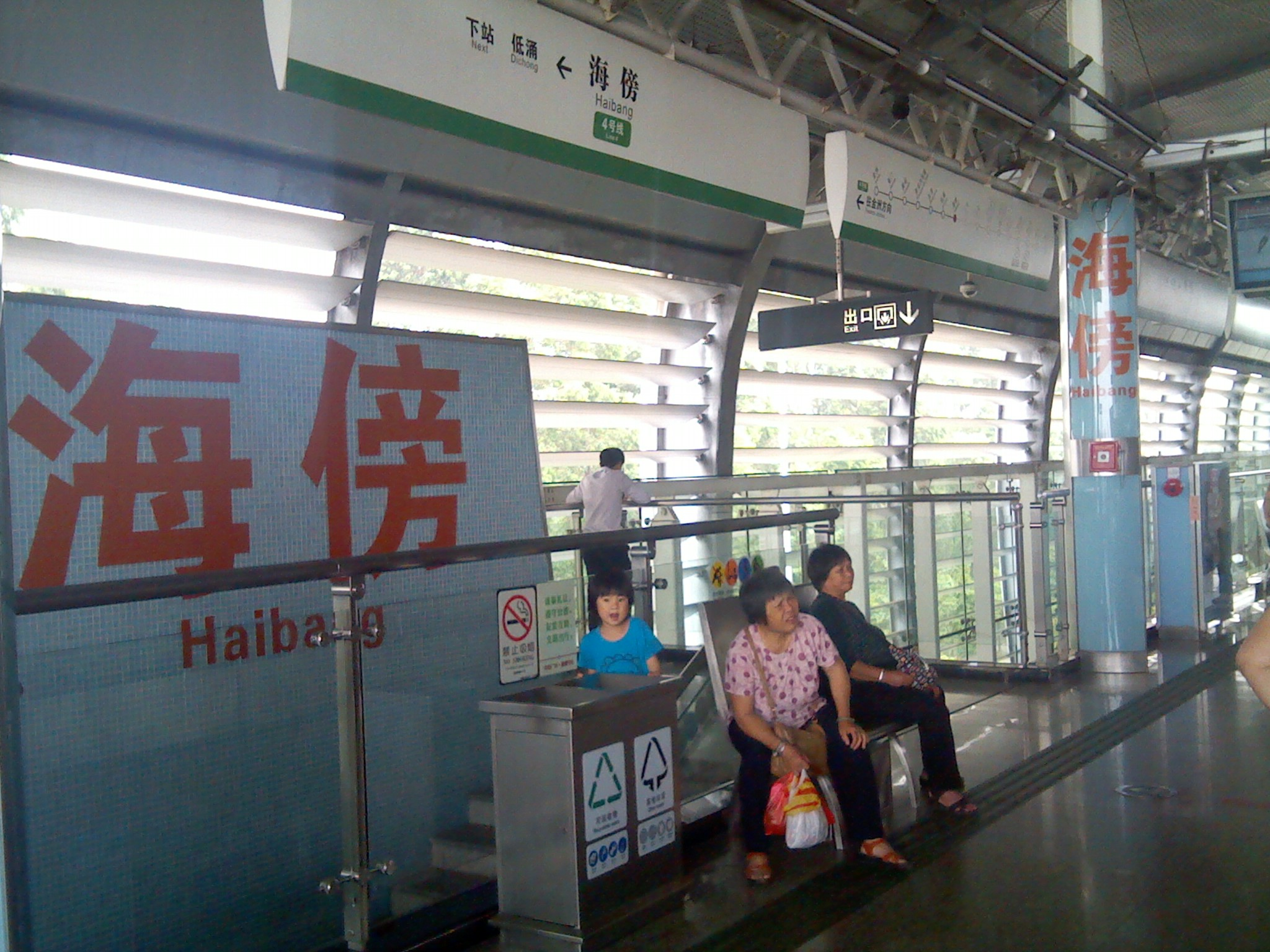 车站月台（金洲方向）